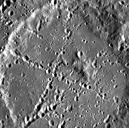 Crater Stevenson on Mercury with an 'x' on its surface. The perpendicular lines that traverse the crater are secondary crater chains caused by ejecta from two primary impacts outside of the field of view. Imaged by MESSENGER 24 April 2011. The image is 116.5 km across. (Map of the area)